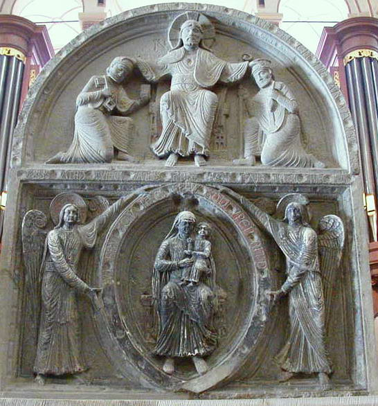 Maastricht, Basilica of Saint Servatius. Two-part relief with Christ blessing Saint Servatius and Saint Peter (XIIth c.)